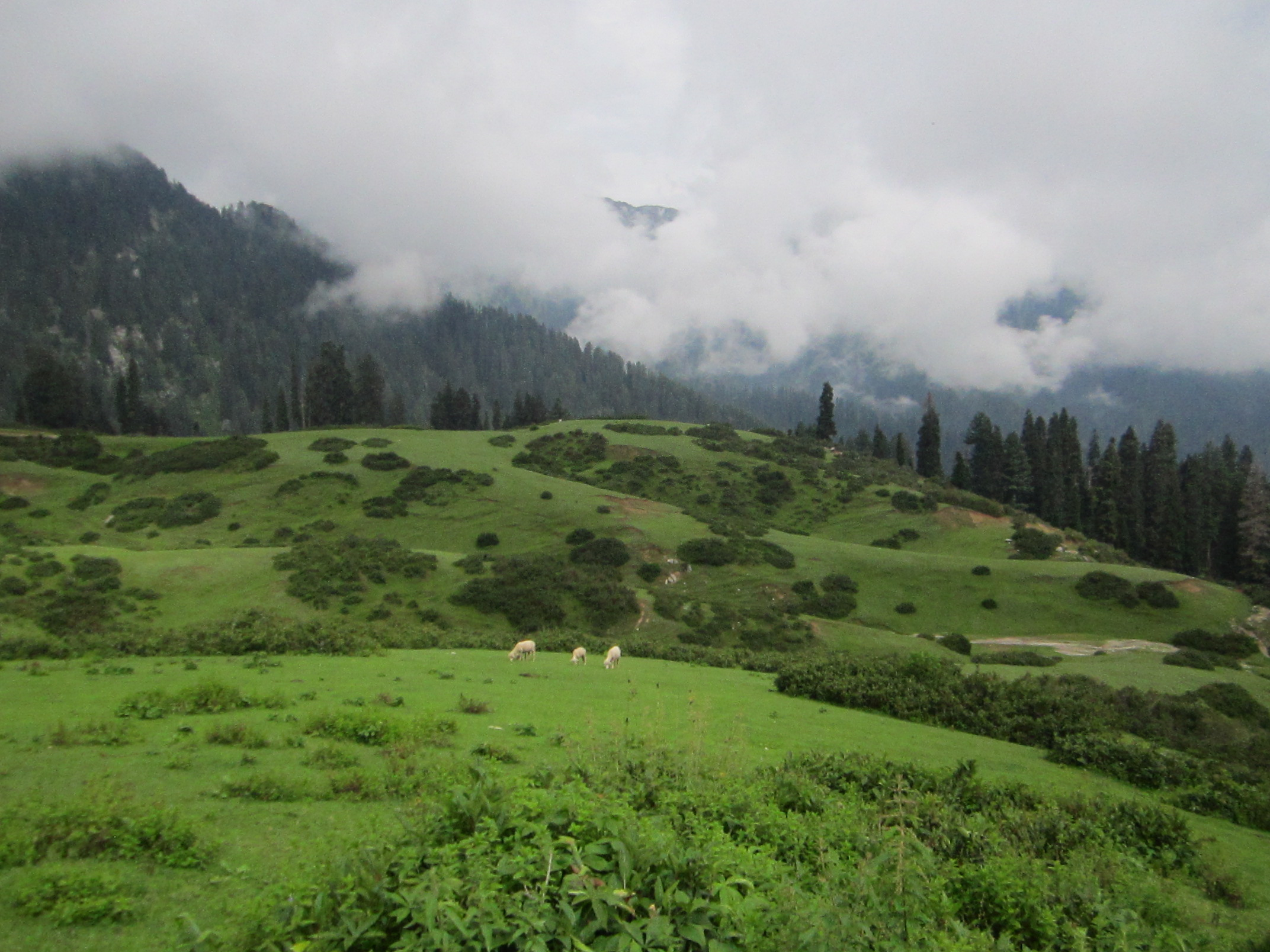 This pic is taken by me in Gabeen Jabba Matta Swat Valley Khyber Pakhtunkhwa Pakistan